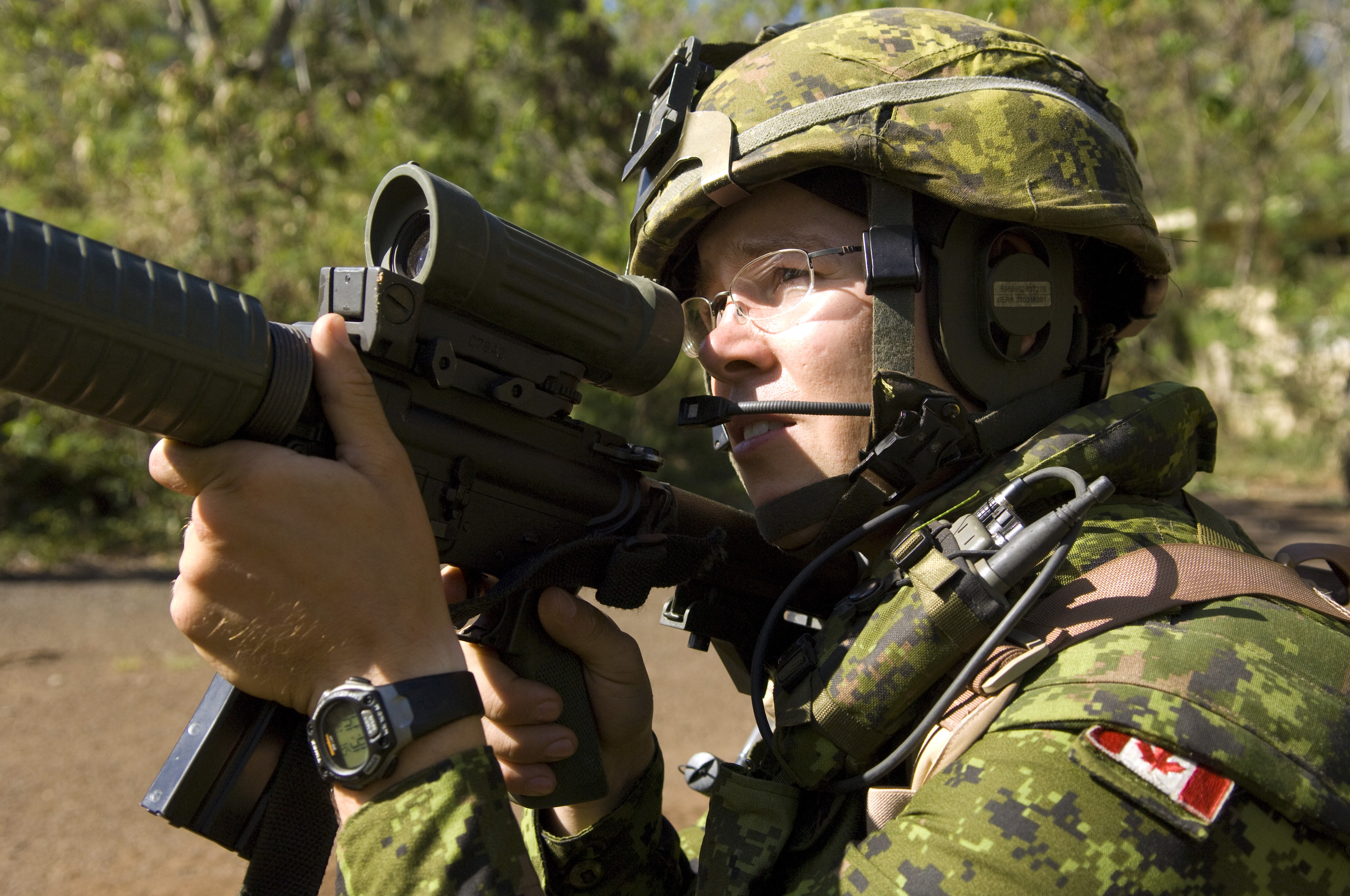 KAHUKU, Hawaii (July 26, 2008) A Canadian soldier assigned to 1st Battalion of Princess Patricia's Canadian Light Infantry aims his rifle in the direction of enemy fire during an assault operation as part of Rim of the Pacific (RIMPAC) 2008. RIMPAC is the world's largest multinational exercise and is scheduled biennially by the U.S. Pacific Fleet. Participants include the United States, Australia, Canada, Chile, Japan, the Netherlands, Peru, Republic of Korea, Singapore, and the United Kingdom. (U.S. Navy photo by Mass Communication Specialist 1st Class Daniel N. Woods/Released)